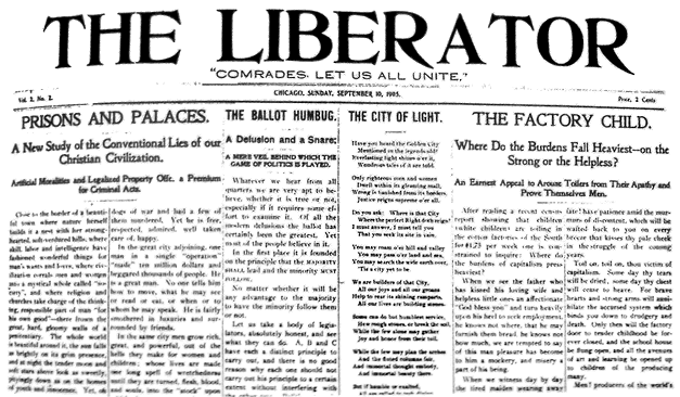 Front page of the Chicago anarchist newspaper The Liberator on September 10, 1905 featuring an article from editor Lucy Parsons